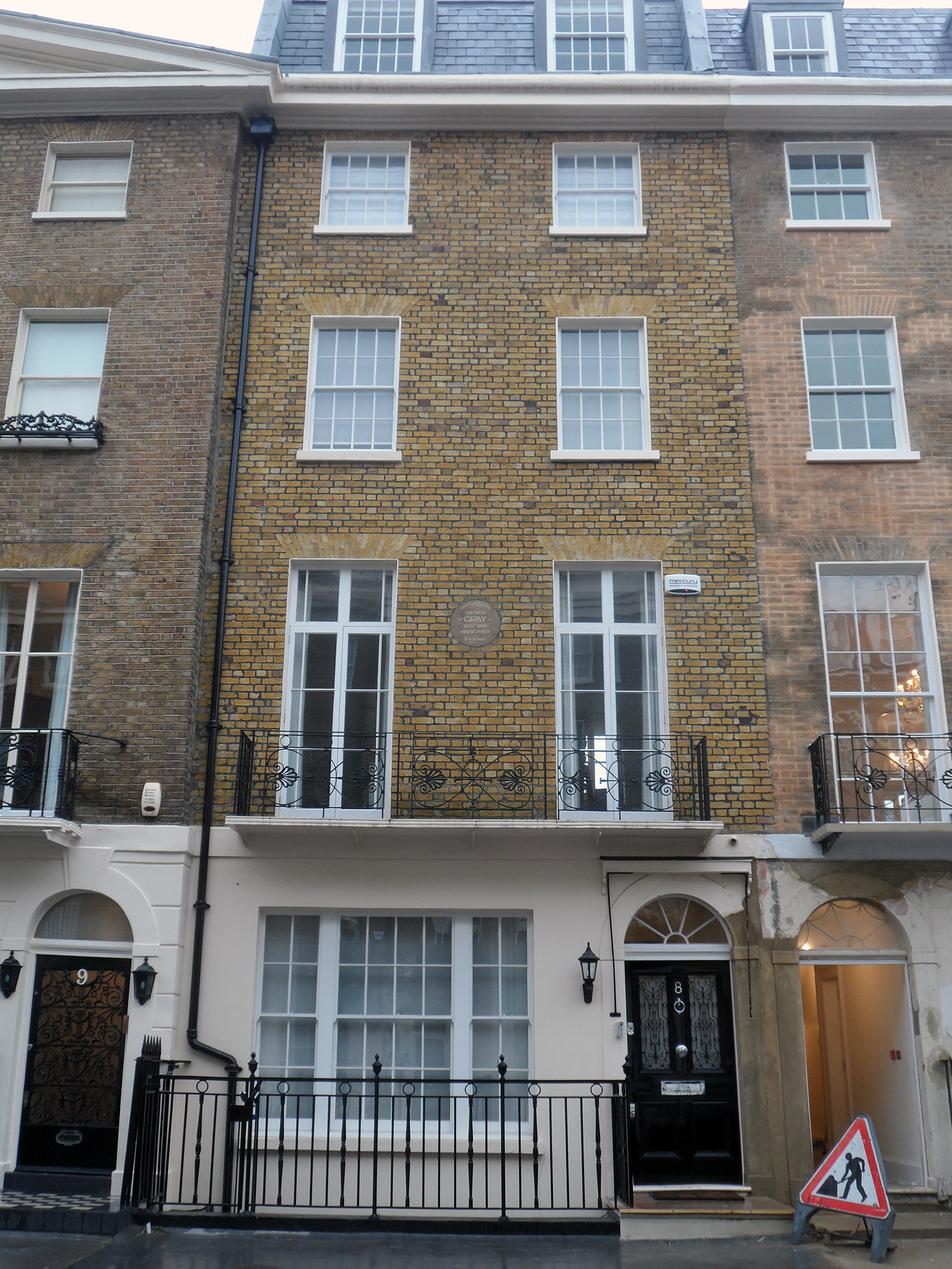 Henry Gray 1827-1861 anatomist lived here